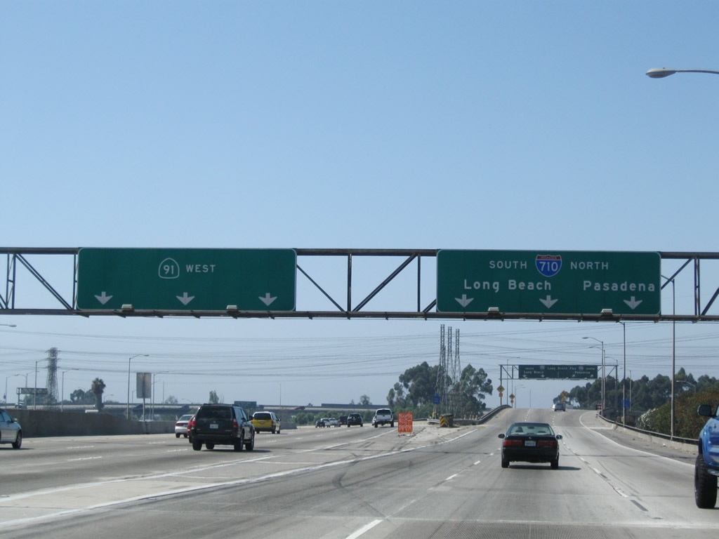 The 91 Freeway West Approaching The Long Beach Freeway